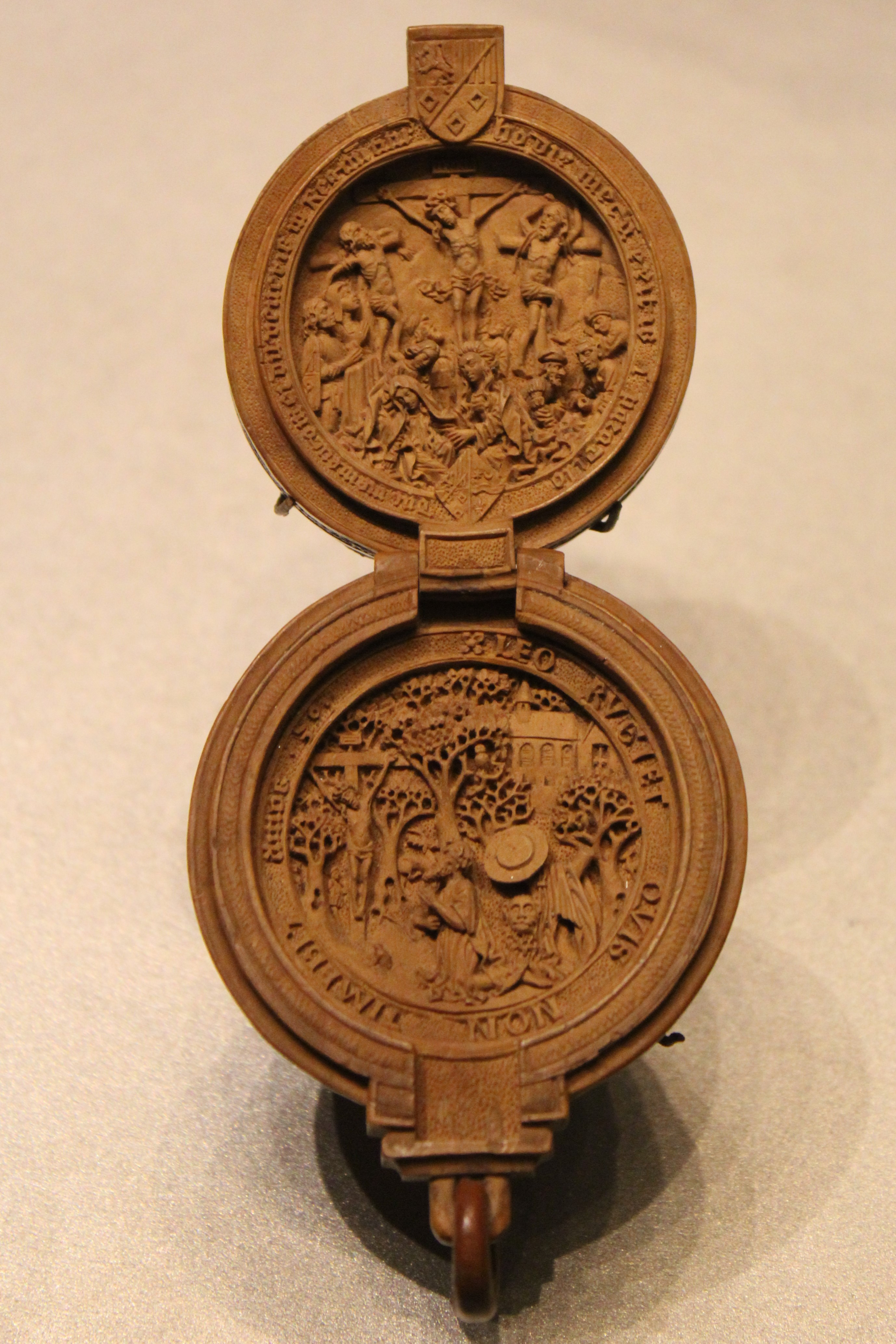 Waddesdon bequest. With thanks to the British Museum for allowing photographs